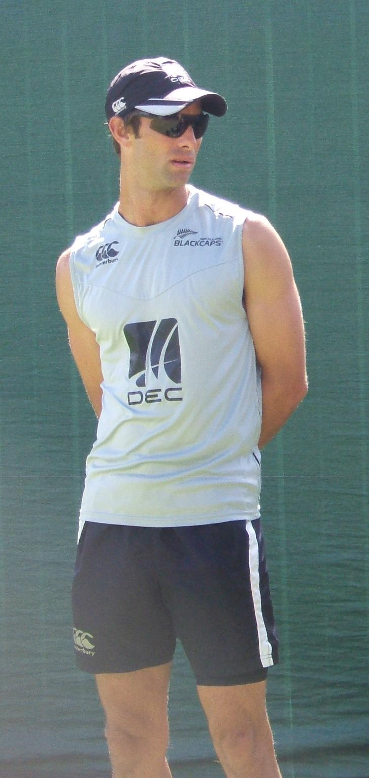 Grant Elliott at a training session at the Adelaide Oval